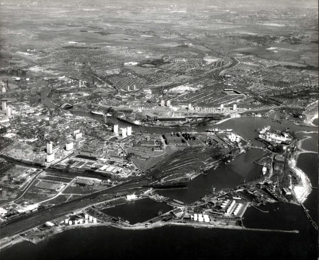 Hendon Dock in the foreground was completed in 1868 as an extension to the larger Hudson Docks opened in 1850. Bartram & Sons shipyard can be seen, lower right, next to the oil storage depot. Reference: TWAS: DT.TUR.7.15 (Copyright) We're happy for you to share this digital image within the spirit of The Commons. Please cite 'Tyne & Wear Archives & Museums' when reusing. Certain restrictions on high quality reproductions and commercial use of the original physical version apply though; if you're unsure please . To purchase a hi-res copy please quoting the title and reference number